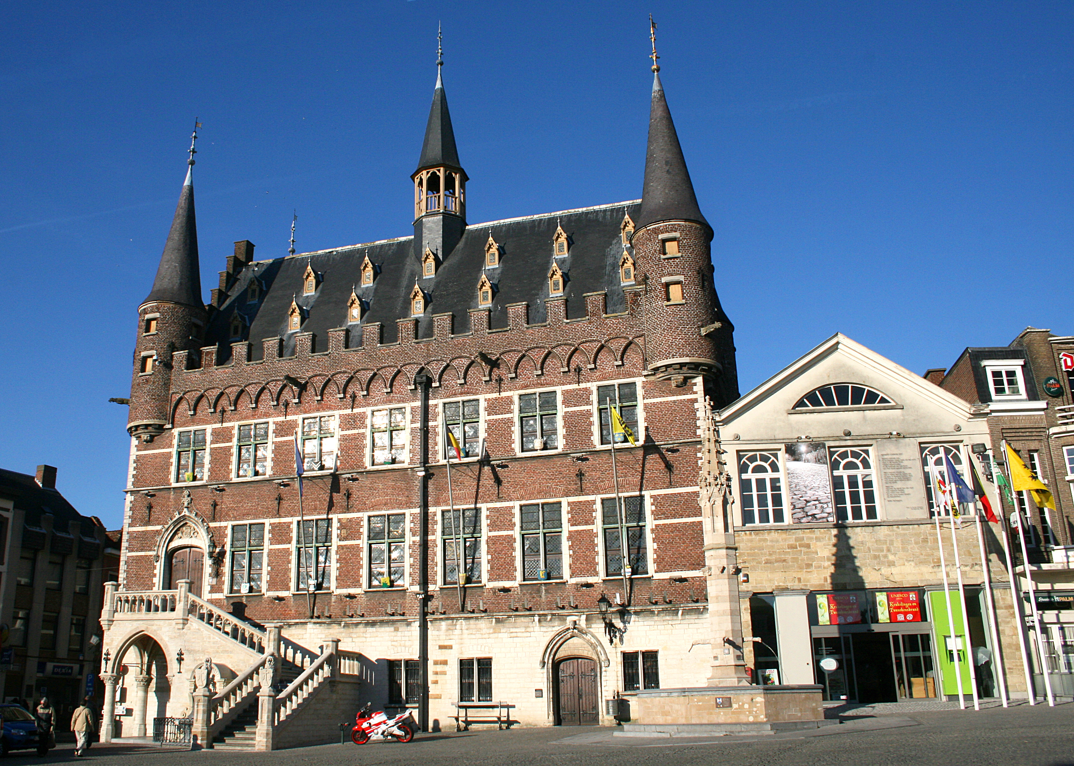 Geraardsbergen (Belgium), the town hall and the museum of the "Krakelingen en tonnekensbrand" festivities.